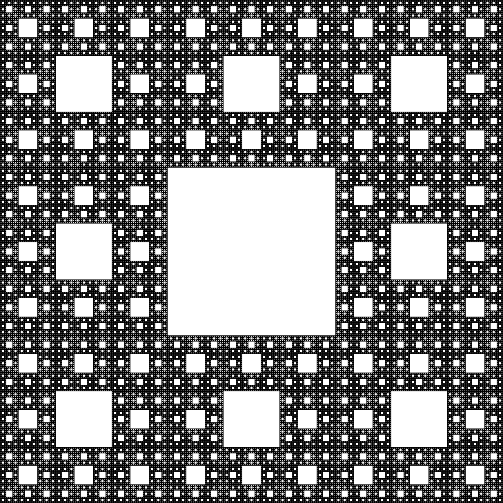 Sierpinski carpet, 6th iteration